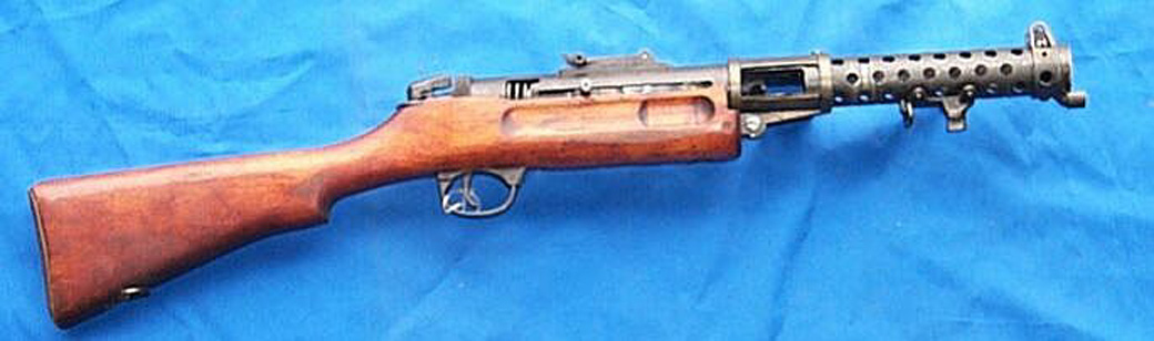 A Lanchester submachine gun; Photograph taken in the Museum of the Brazilian Army.